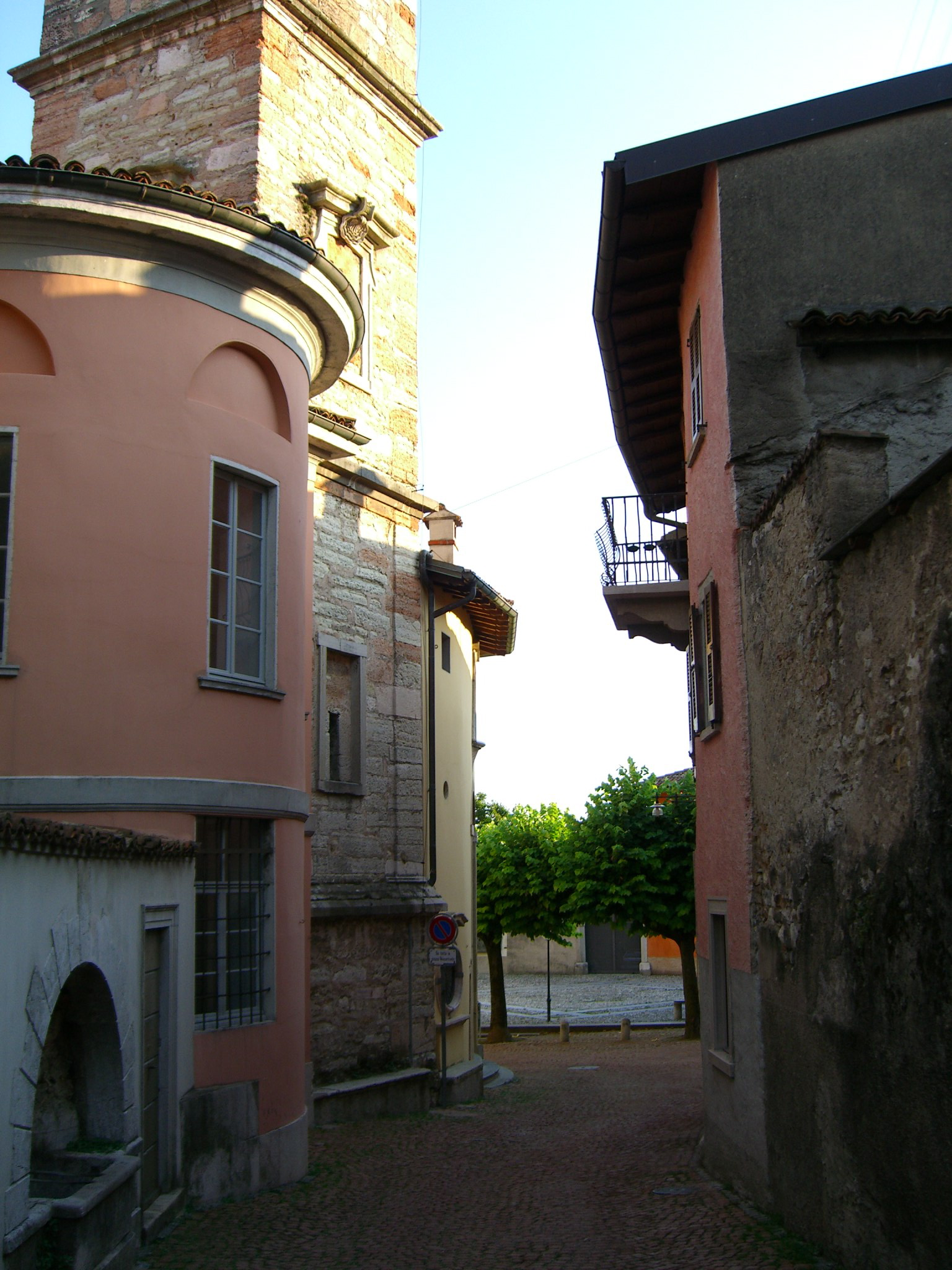 Some impressions from the village Arzo in Ticino